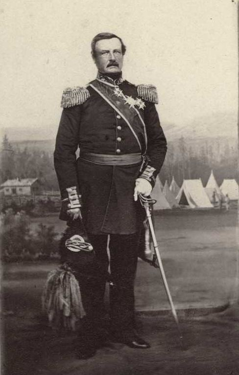 Norwegian officer Christian Frederik Michelet (1792–1874), photo from about 1860. He became major general in 1854.